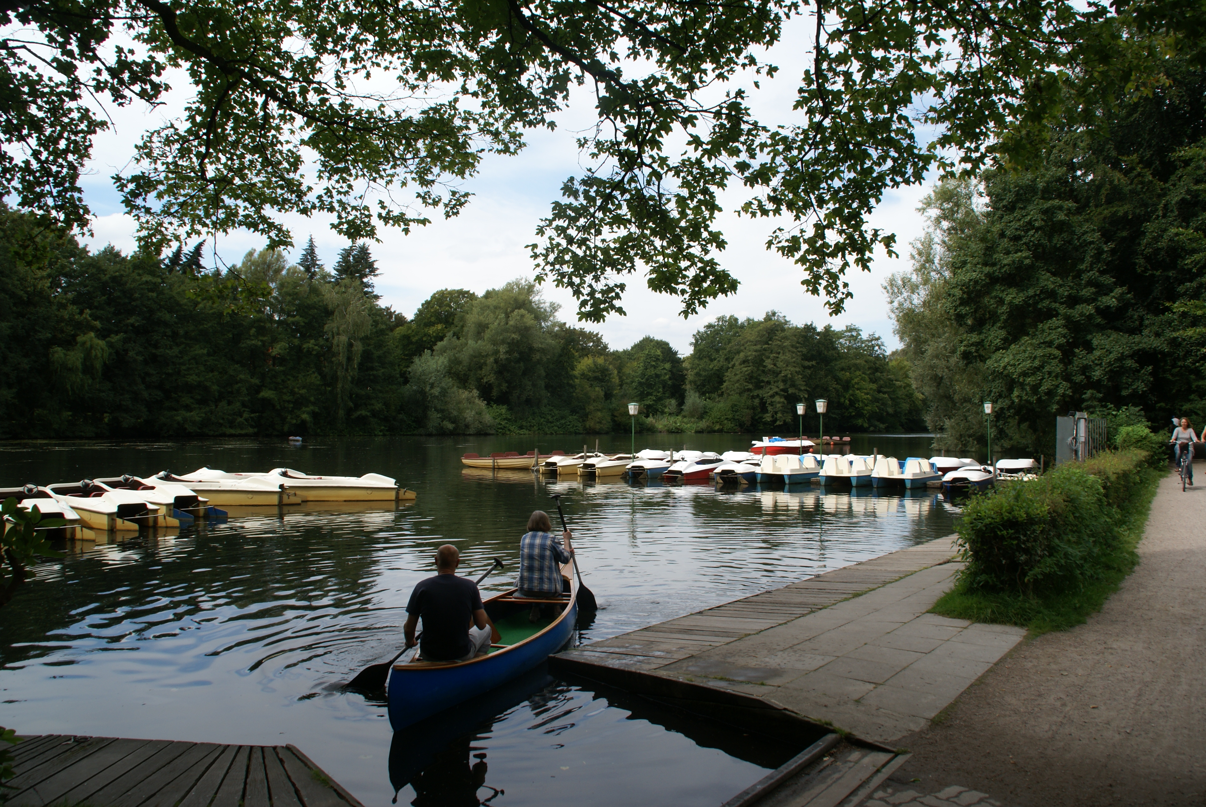 Hamburg (Germany): little lake Ratsmuehlendamm